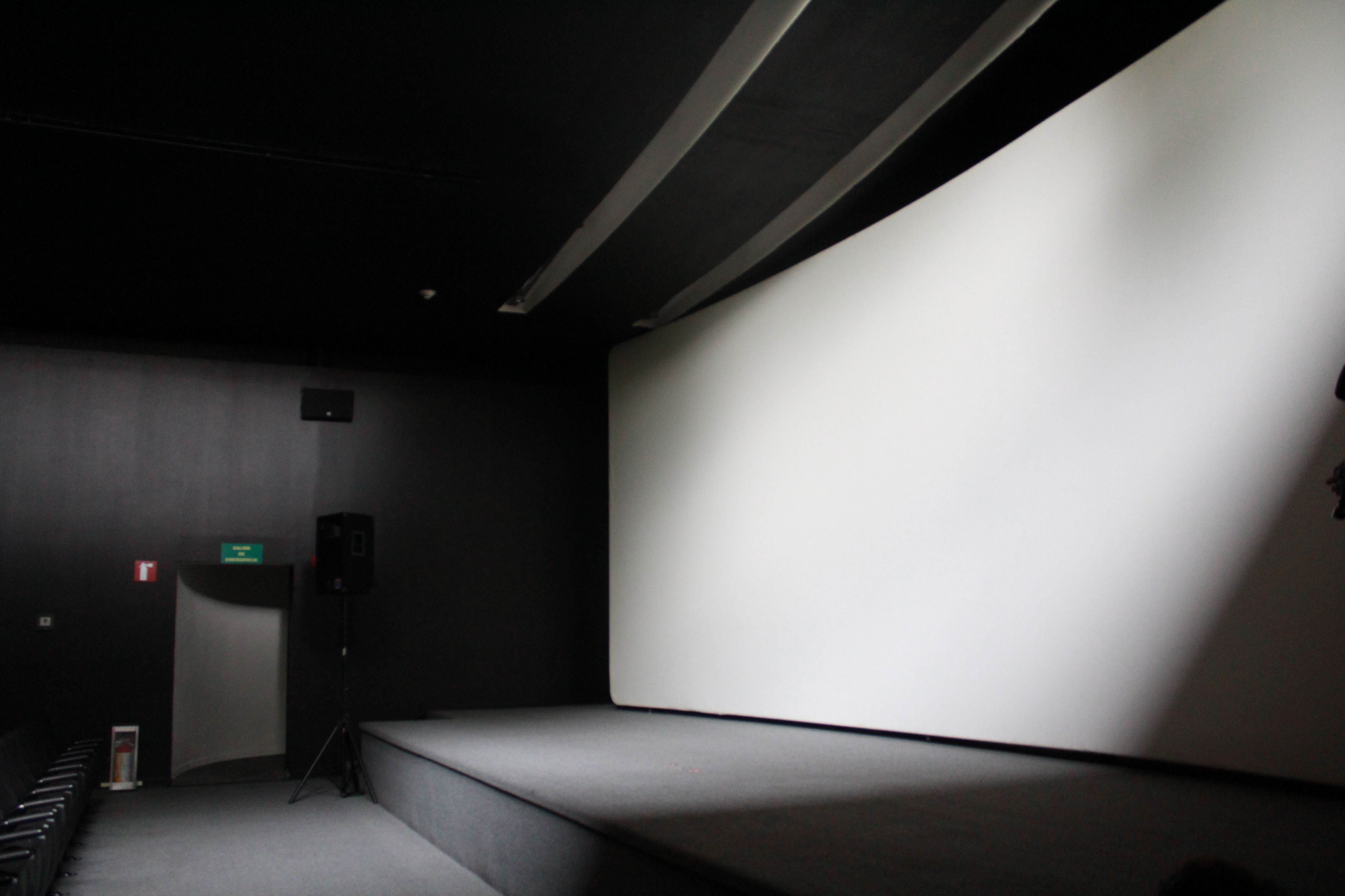 Lido Cinema inside the Culture Center Bella Época, colonia Condesa, Mexico City.